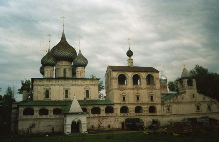 Uglich. Voskresensky Monastery